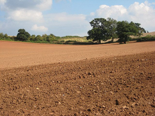 Cultivation, cultivation, cultivation The soft red earth is prepared for the planting of a new crop in this field north of Lugwardine.